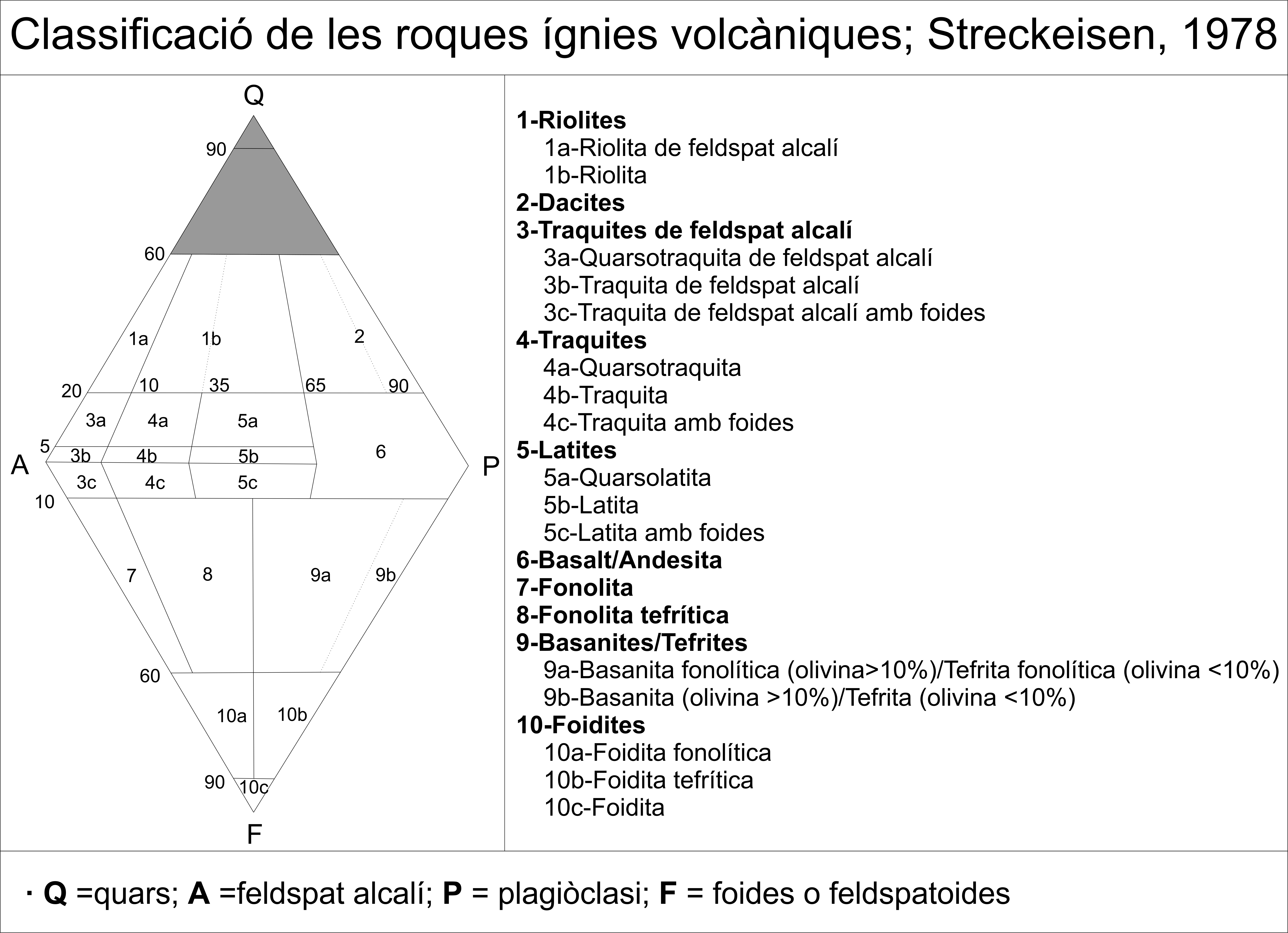 Volcanick rocks classification (Streckeisen, 1978)